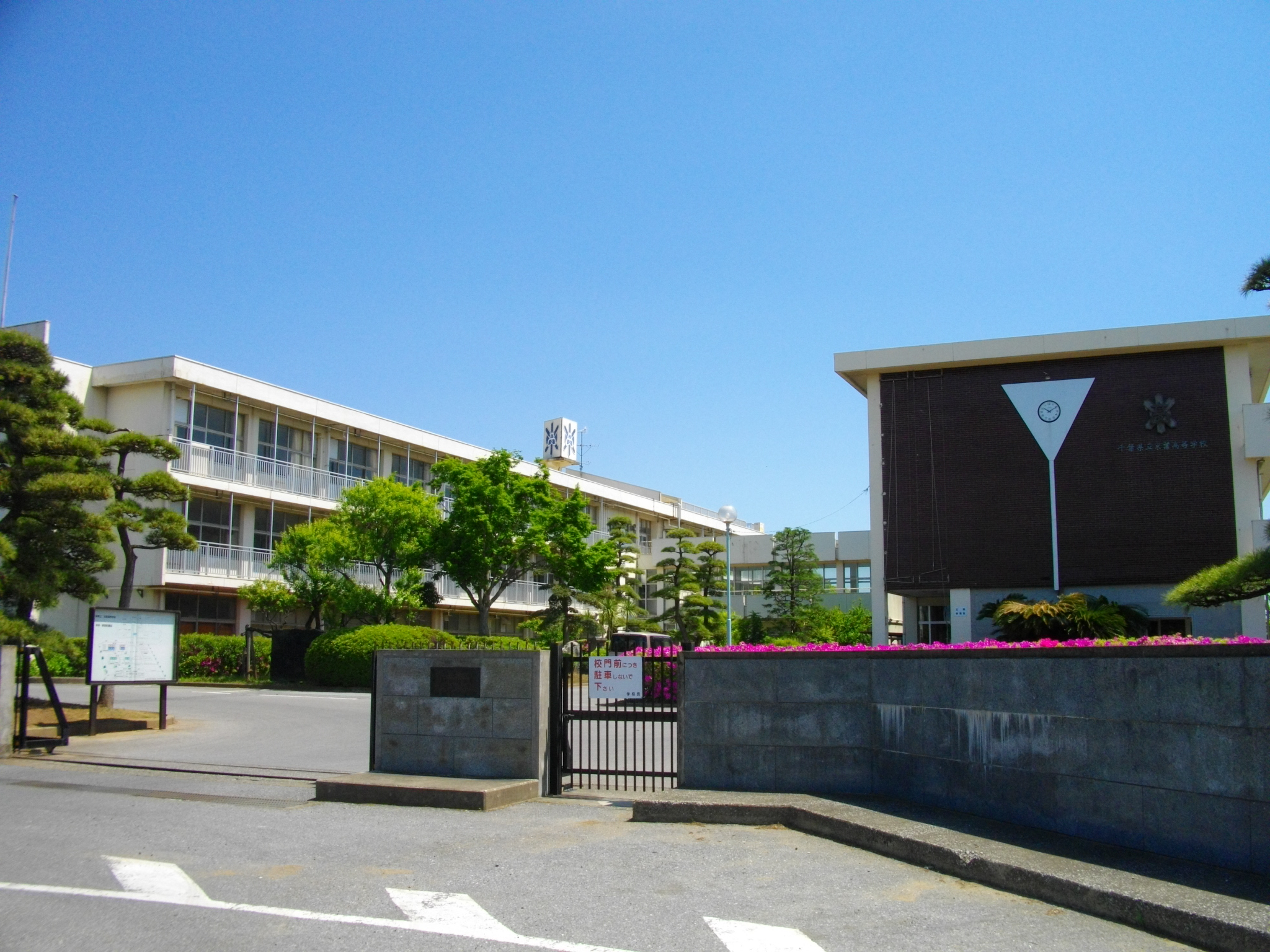 Keiyo High School